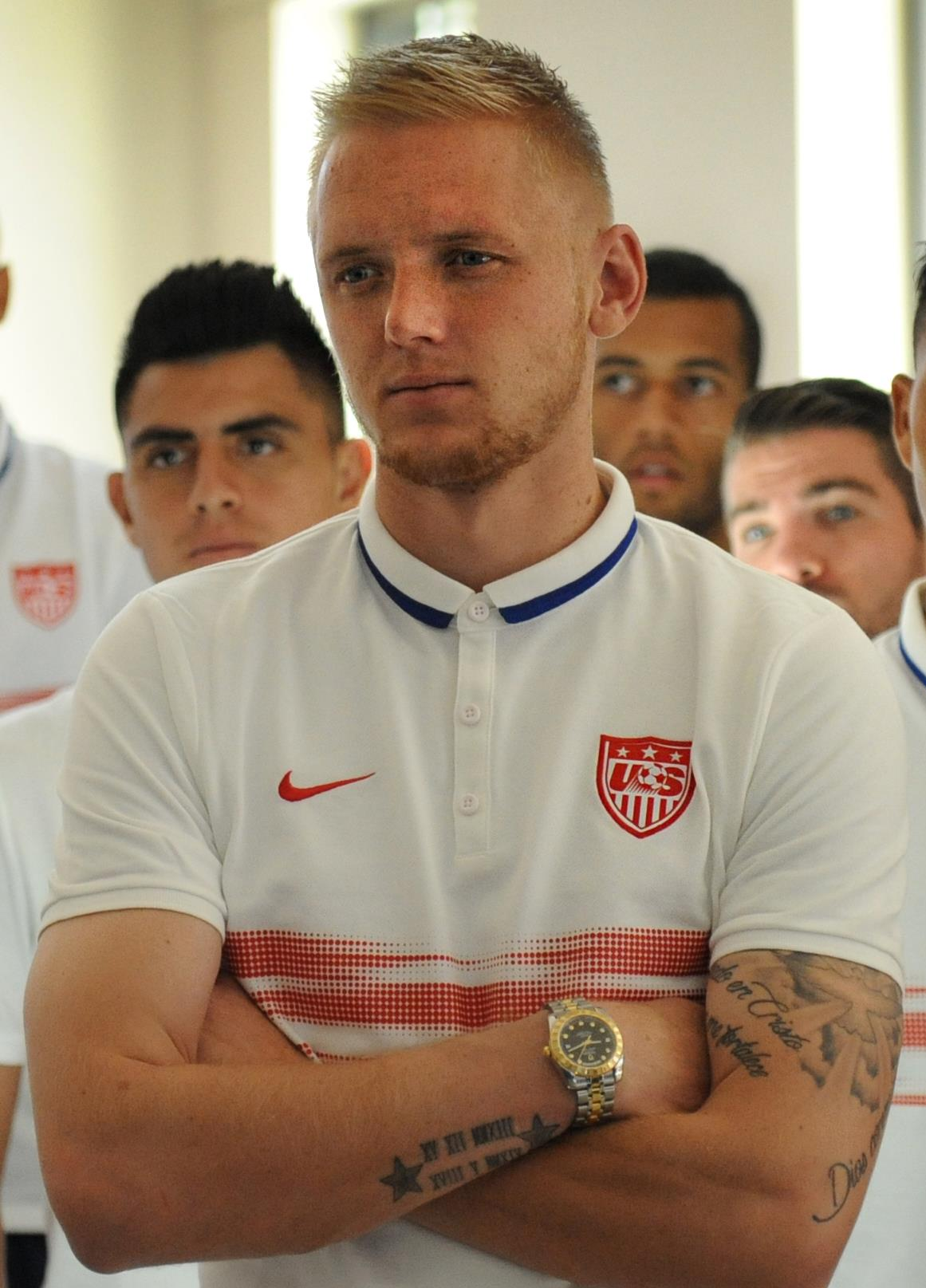 William Yarbrough and members of the U.S. men's national soccer team visit wounded warrior at Walter Reed National Medical Center in Bethesda, Md., Sept. 3, 2015. DoD photo by Marvin Lynchard